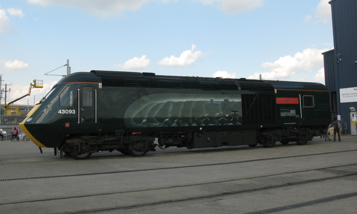 Great Western Railway named their power car 43093 'Old Oak Common HST Depot 1976-2018' at an open day in the depot in 2017. They also put some special vinyls over the recently repainted GWR livery showing the 'Legends of the Great Western' which was the theme for the day.